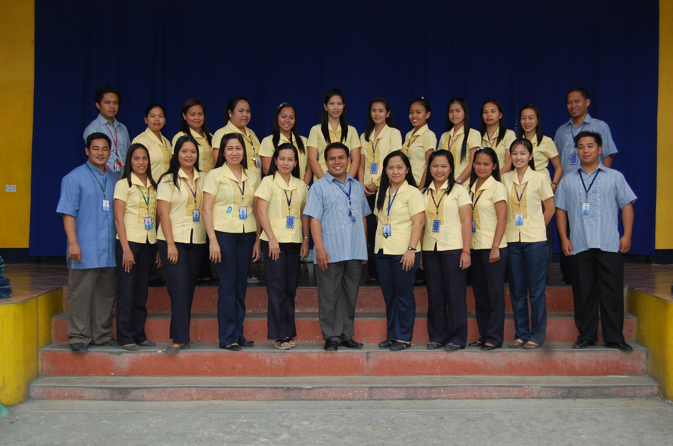 Teachers